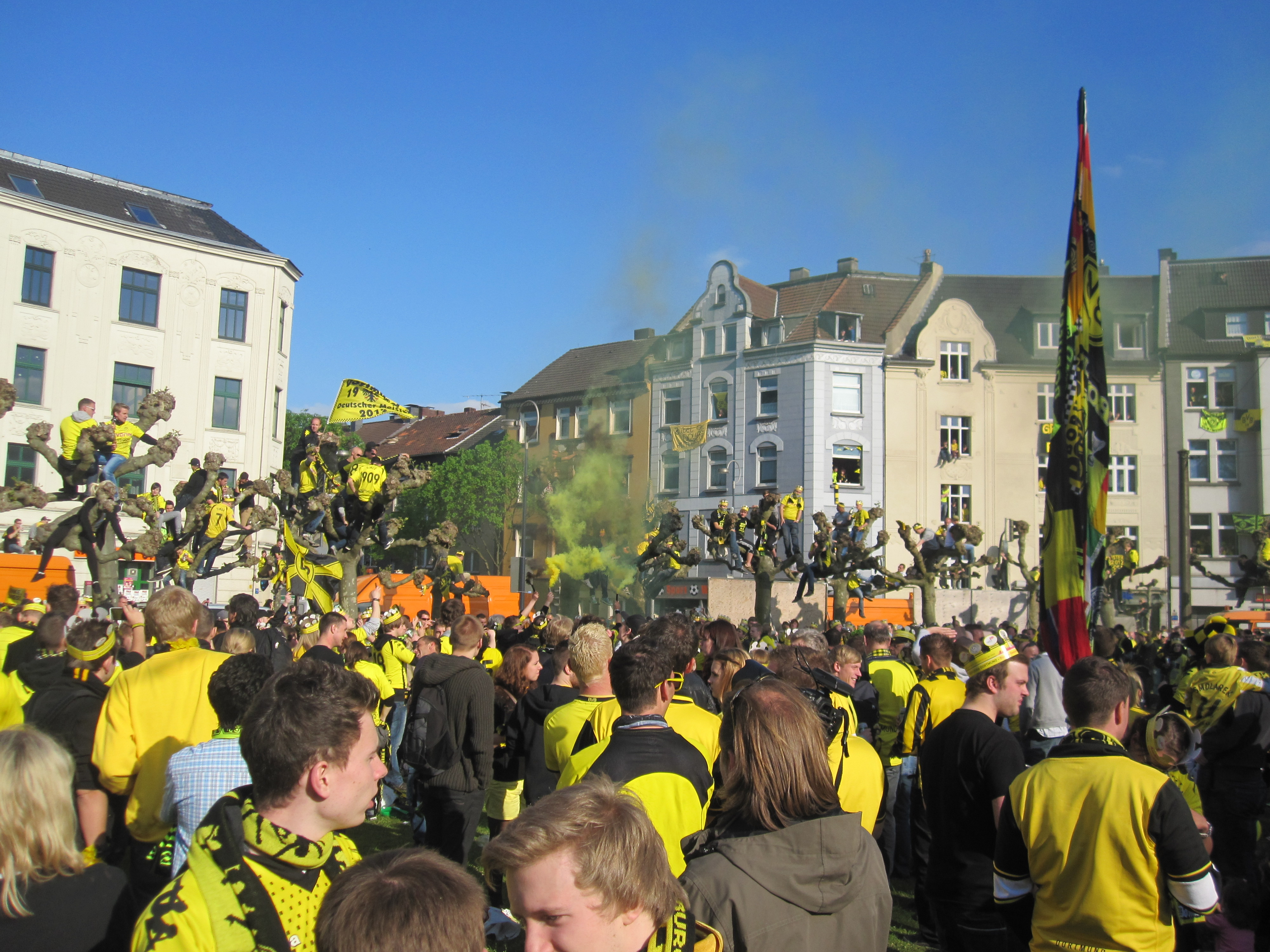 Celebrations 2012, Borsigplatz Dortmund